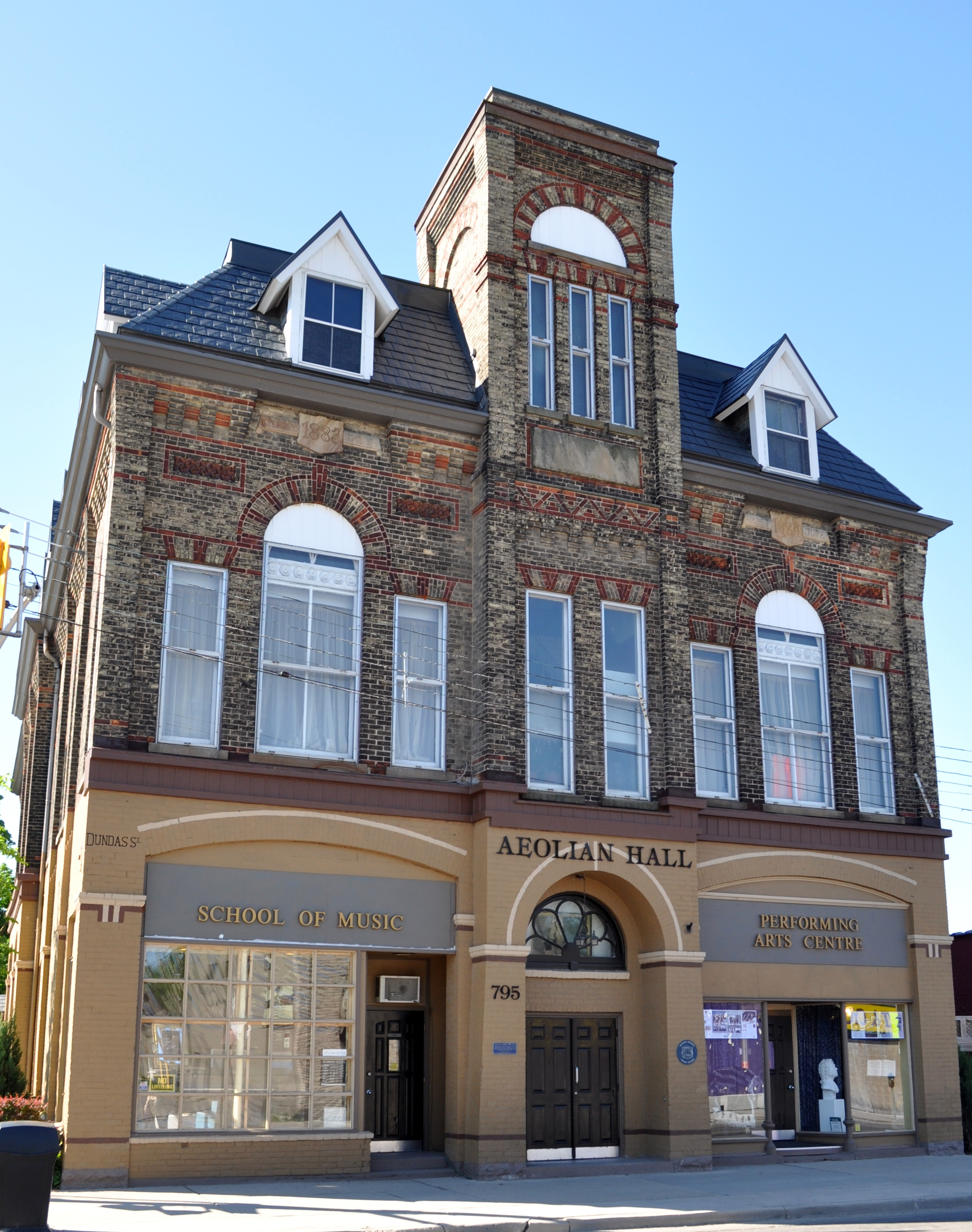 795 Dundas Aeolean Hall, London, Ontario